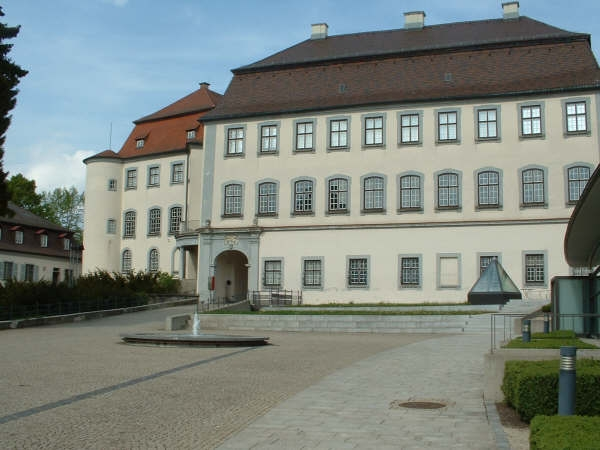 Front of Castle Grosslaupheim